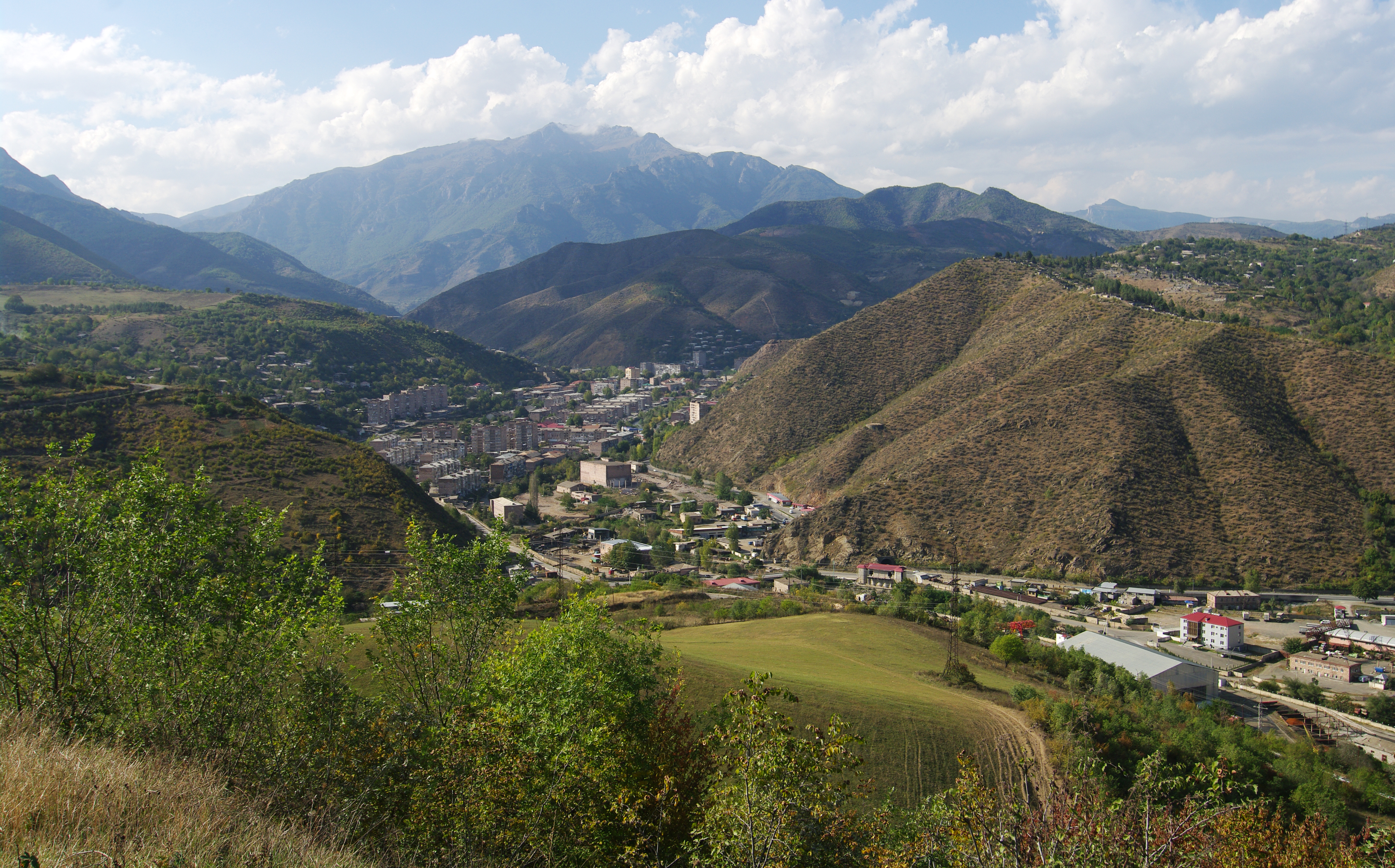 Kapan general view, Syunik, Armenia.